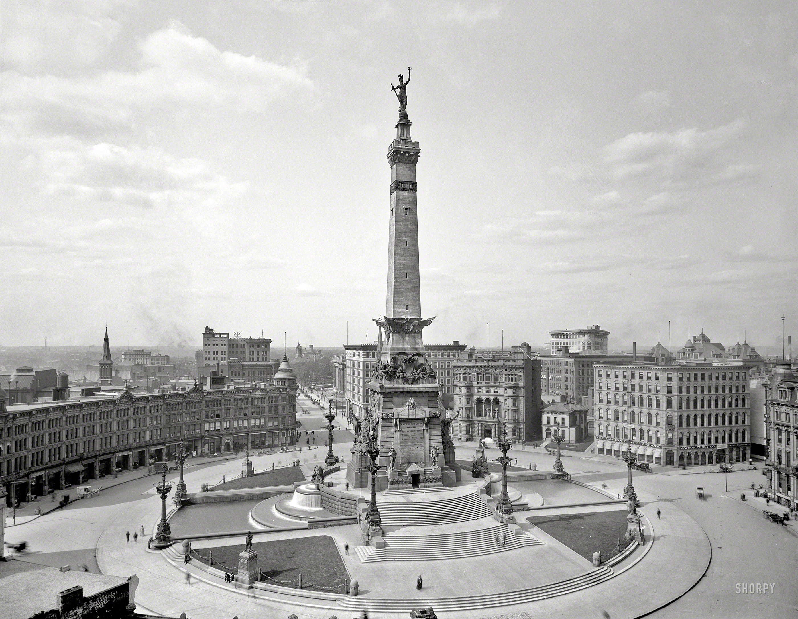 Photo of Monument Circle taken by the Detroit Photographic Company.